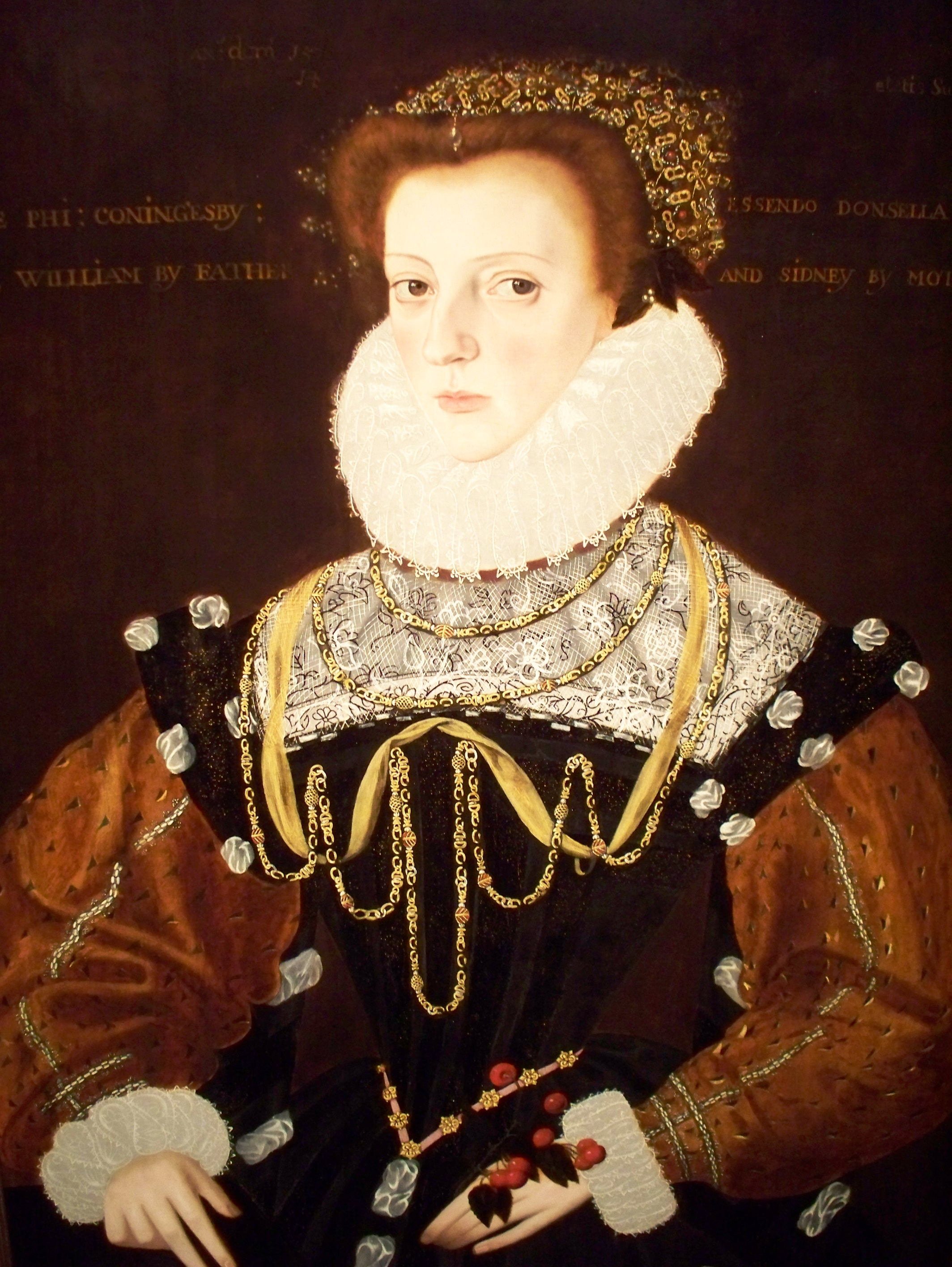 Lady Philippa Coningsby Artist Gower, George nationality British birth-death 1530-1596 Creation date 1578 Materials oil on wood Dimensions 37 x 27 5/8 in. Location Portraiture, Medieval Art gallery Credit line James E. Roberts Fund Accession number 56.107 Wikipedia Loves Art at the Indianapolis Museum of Art This photo of item # 56.107 at the Indianapolis Museum of Art was contributed under the team name "Opal_Art_Seekers_4" as part of the Wikipedia Loves Art project in February 2009. Indianapolis Museum of Art The original photograph on Flickr was taken by Forever Wiser—please add a comment to the original Flickr page whenever a use has been made on Wikipedia or another project. Project galleries on Flickr: this institution, this team